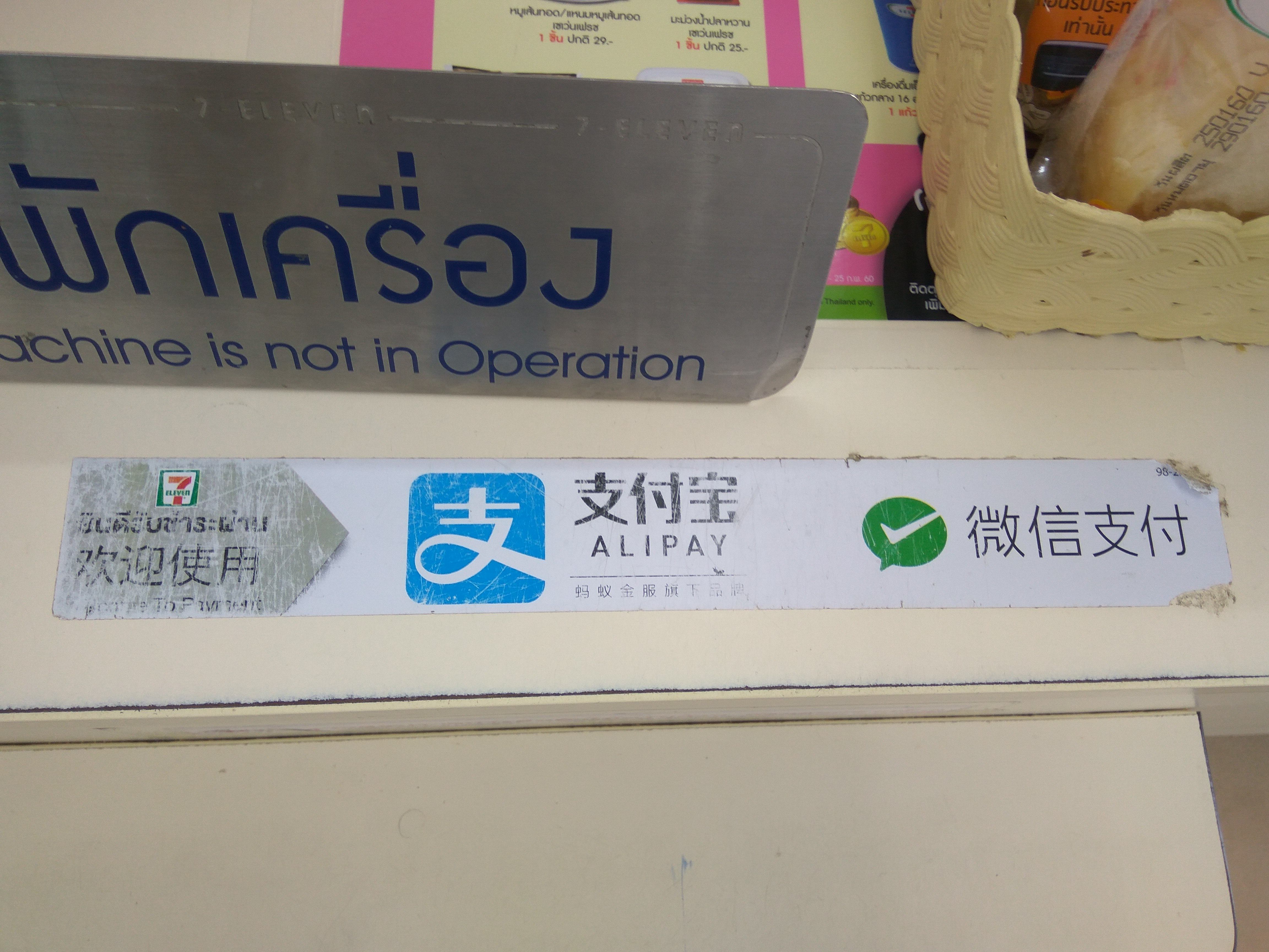 201701 Alipay and WeChat Pay sign inside a 7-Eleven Store in Thailand